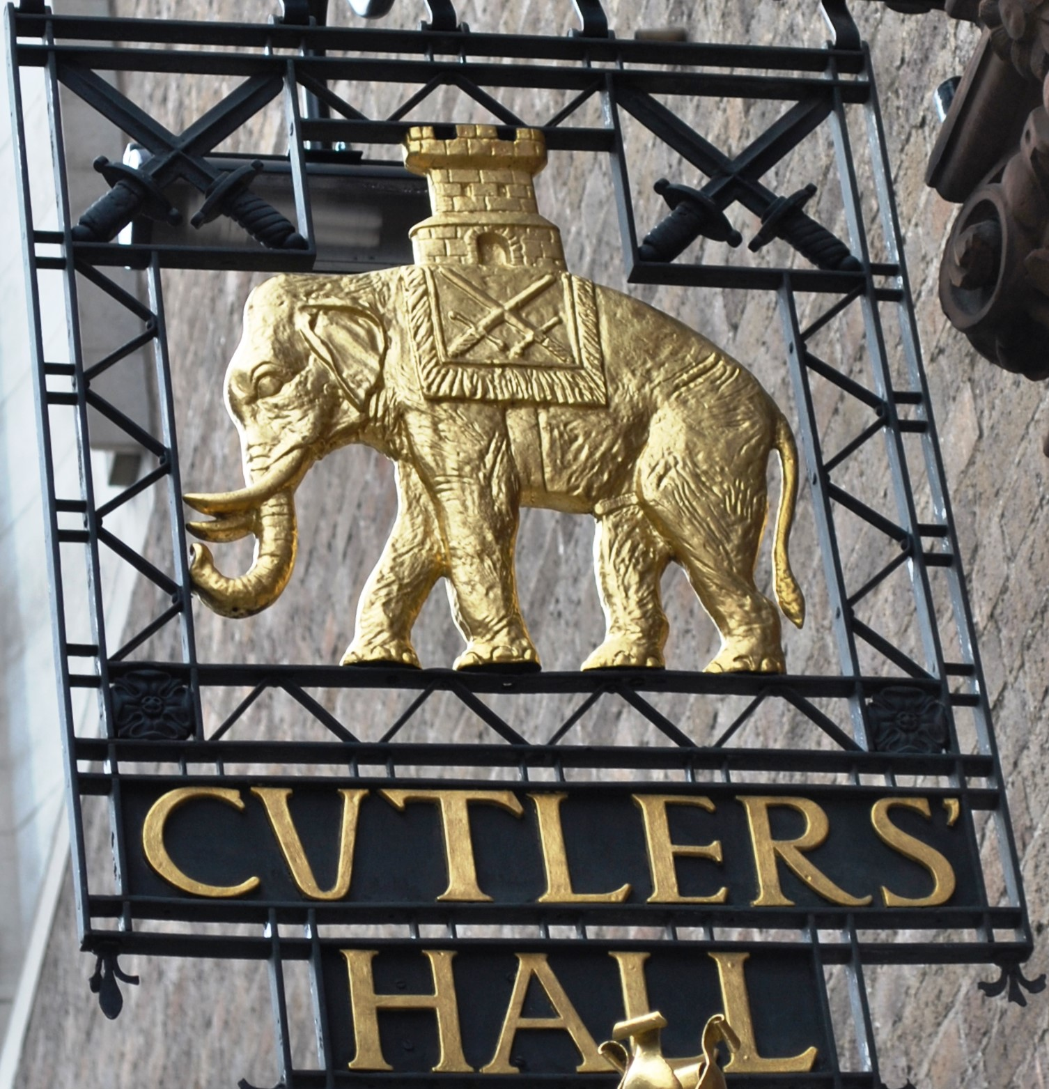 Worshipful Company of Cutlers: Pour Parvenir A Bonne Foy (To Succeed Through Good Faith)